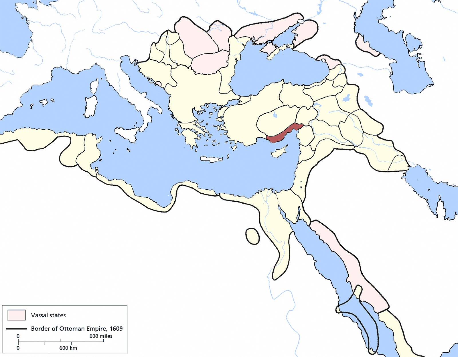 Adana Eyalet, Ottoman Empire (1609). Source: Encyclopedia of the Ottoman Empire at Google Books By Gábor Ágoston, Bruce Alan Masters